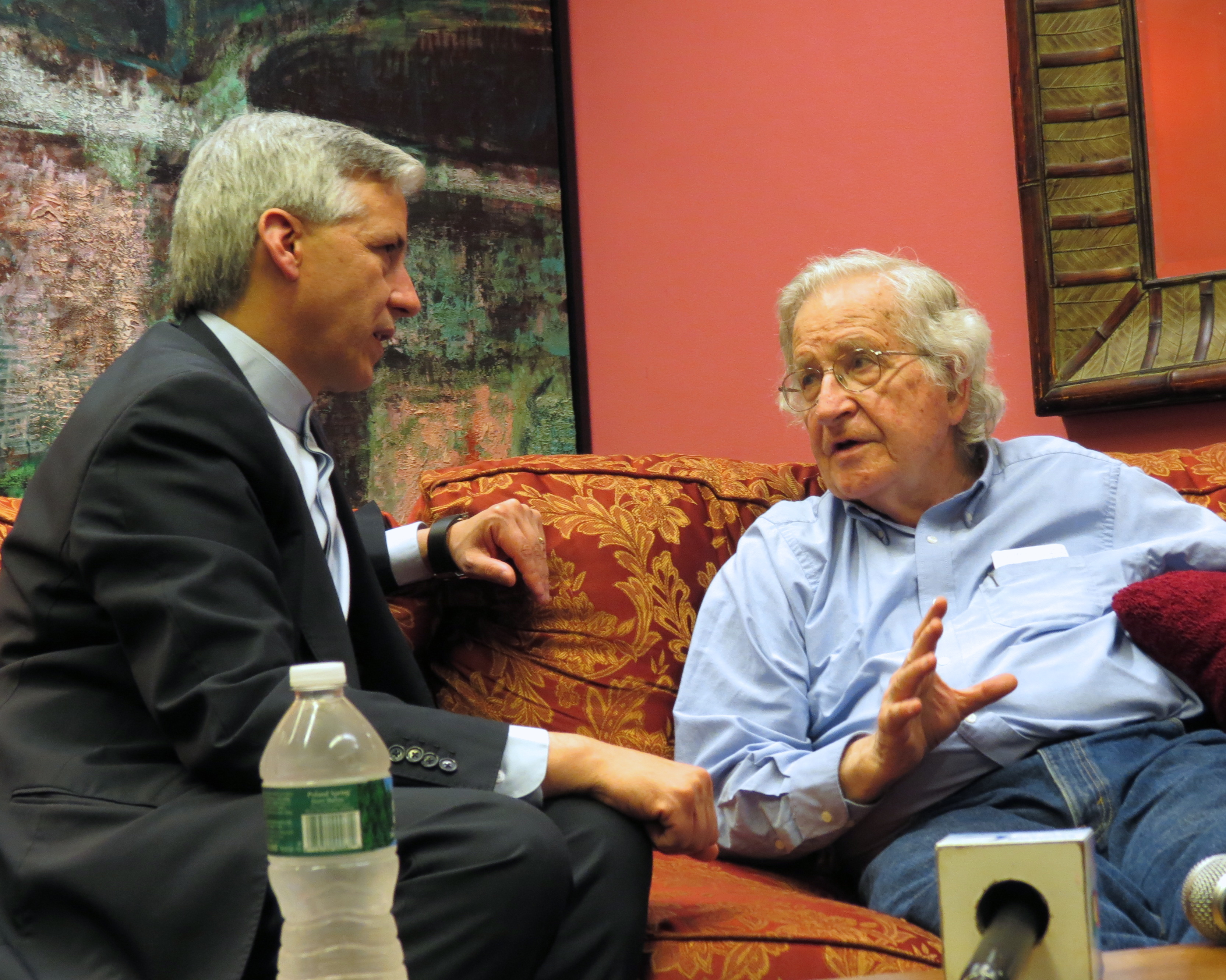 Bolivian Vice President Alvaro Garcia Linera with Noam Chomsky in NYC